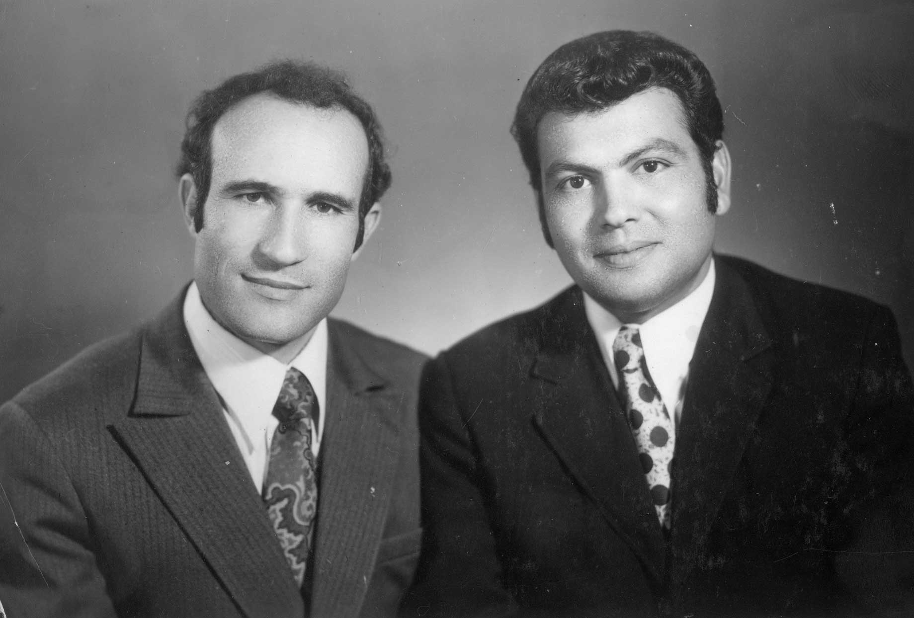 tədbir 3